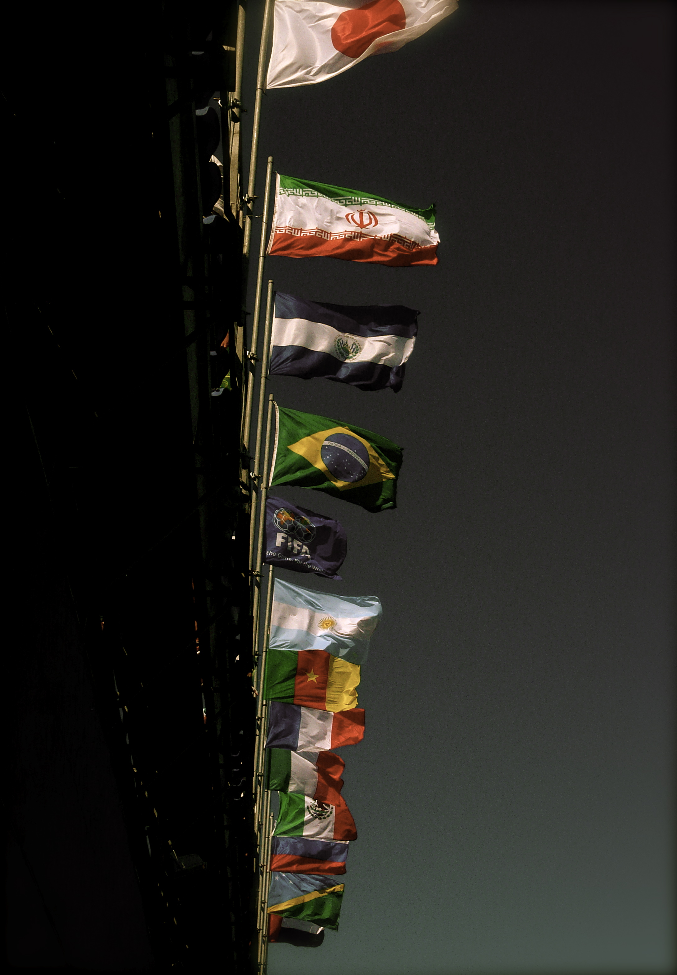 Beach Soccer World Cup Marseille 2008